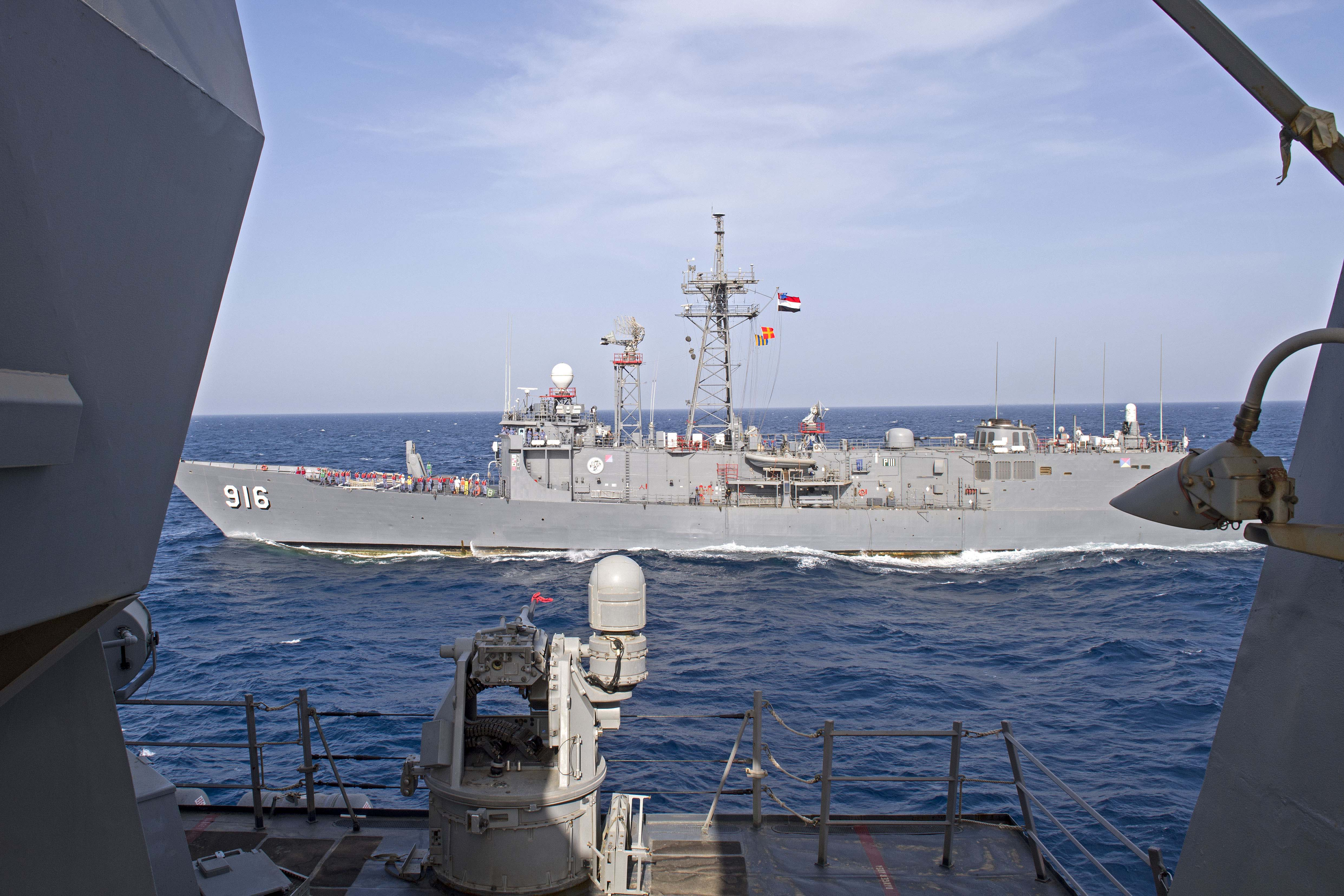 The Egyptian guided-missile frigate Taba (F 916) approaches the U.S. Navy guided-missile destroyer USS Truxtun (DDG-103) for a replenishment-at-sea drill during "Exercise Eagle Salute 17". The exercise was a multilateral exercise with Egypt, Saudi Arabia and United Arab Emirates to enhance mutual capabilities in maritime security operations.